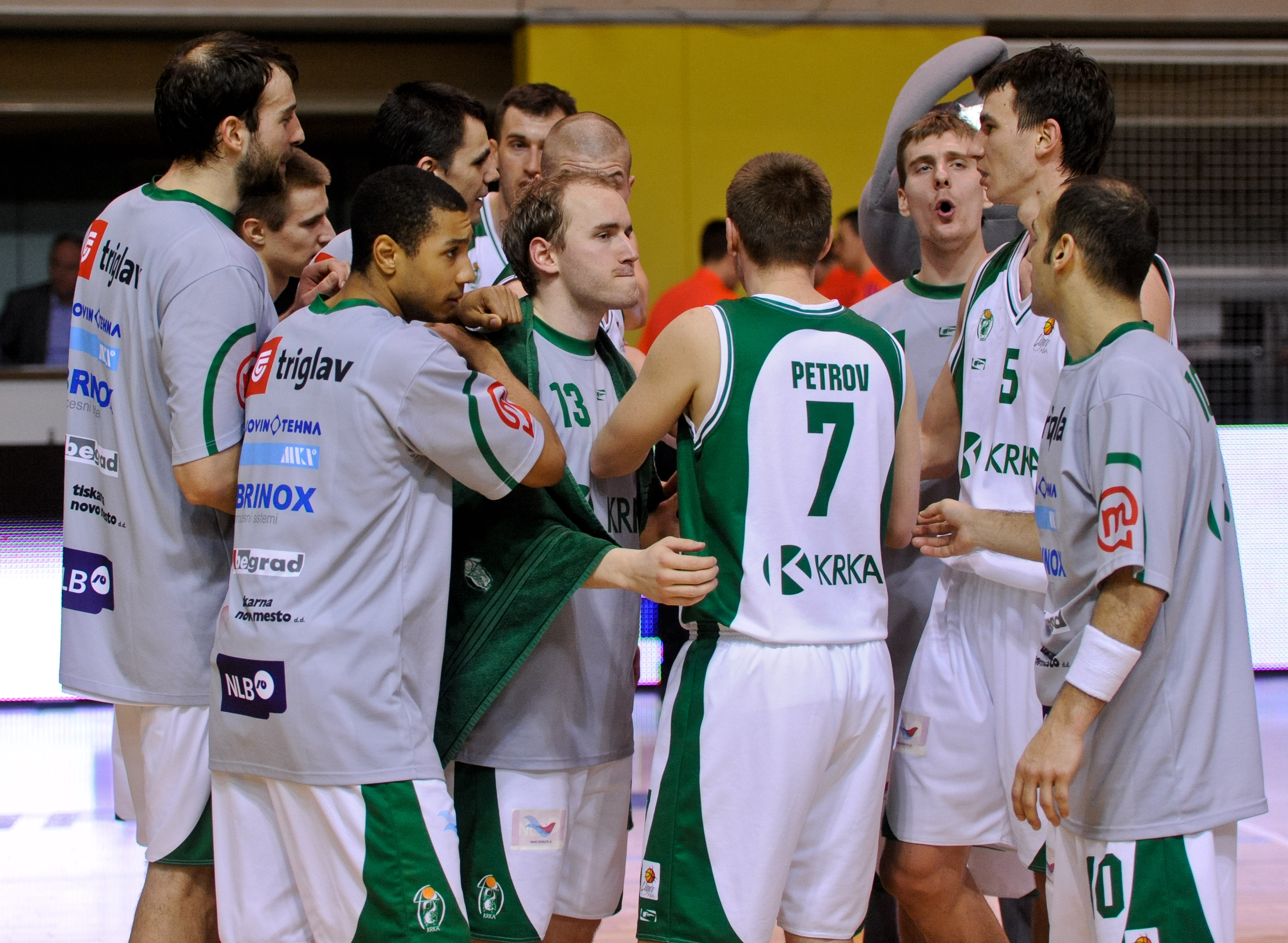 Krka team from march 2012 Krka-Tagreb